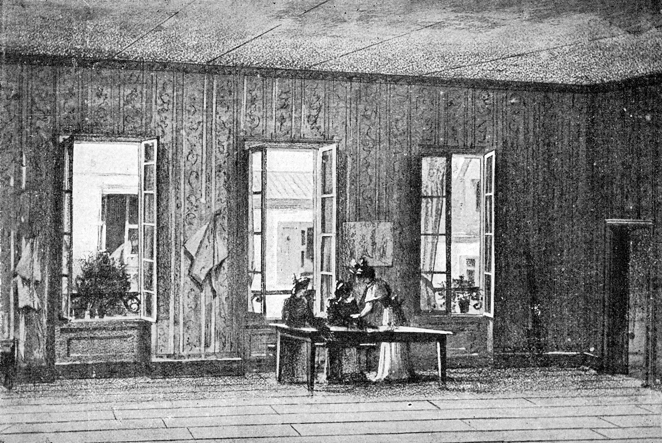 Gustave Charpentier - Louise - 1er et 4e Actes - Heugel